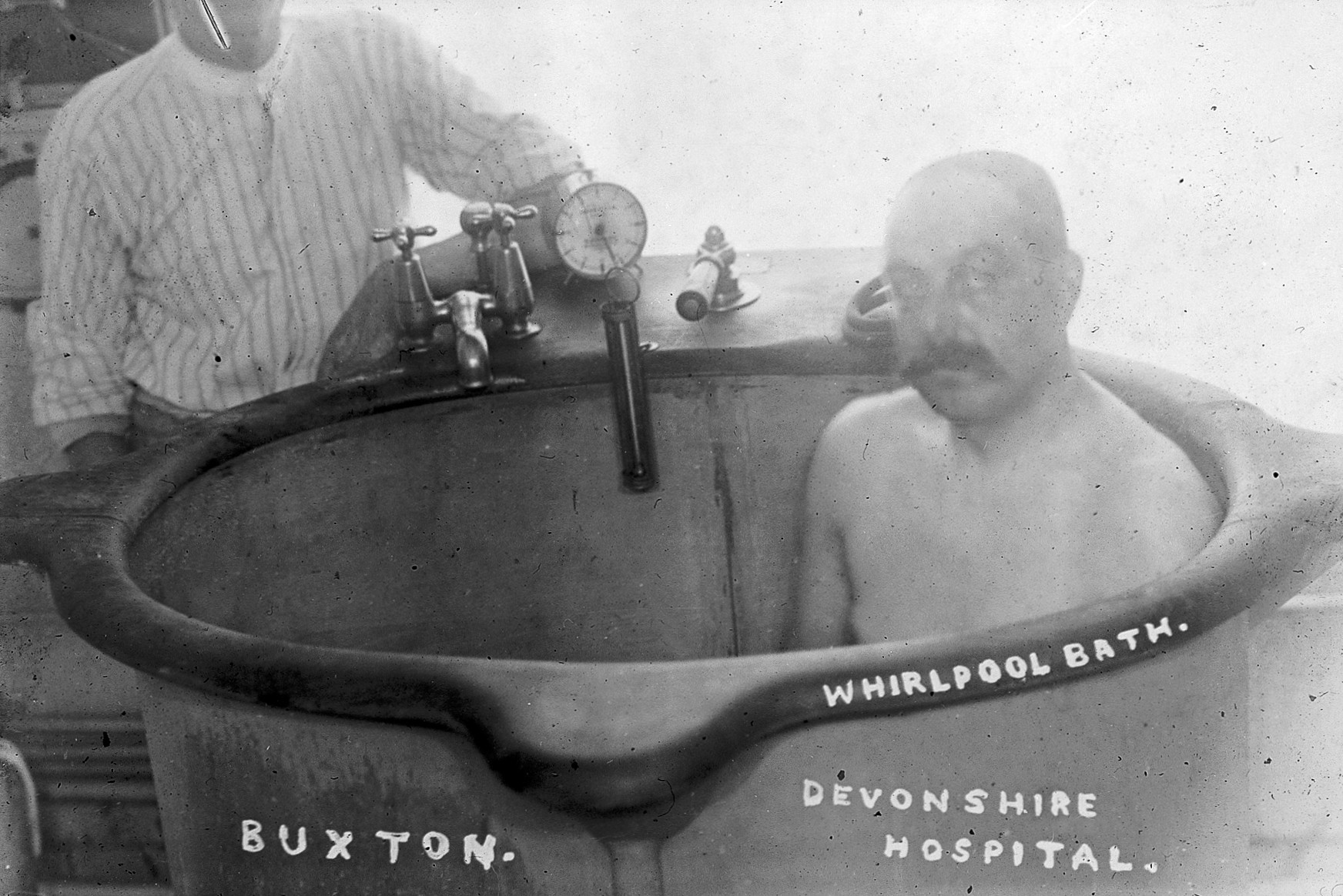 Whirlpool bath in Devonshire Hospital, Buxton. From an old slide taken from a prospectus. Wellcome Images Keywords: Balneology